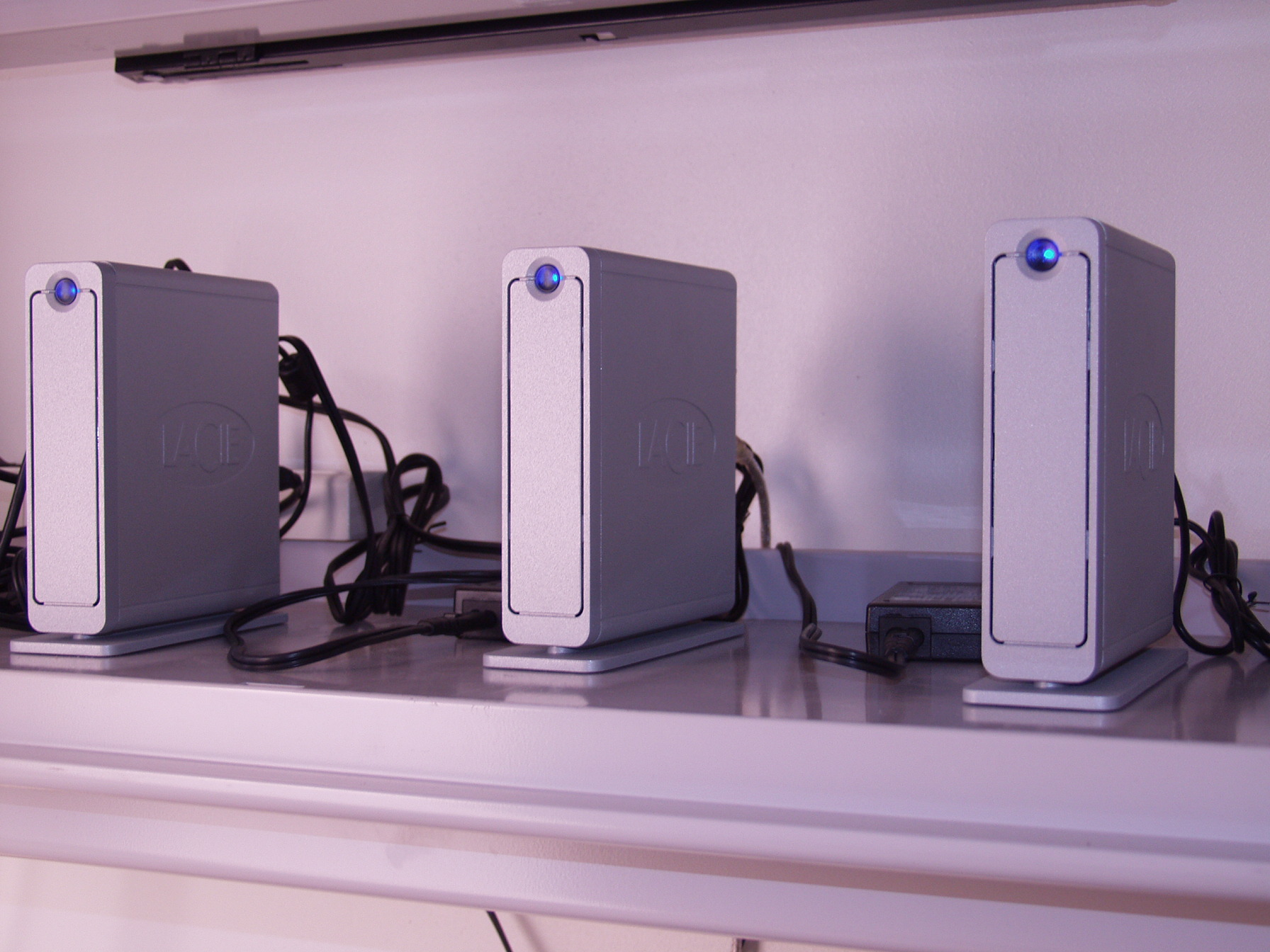 My colleague thought these were webcams, but just the LaCie firewire drives we use for our server backups. The blue eye is a good sign!